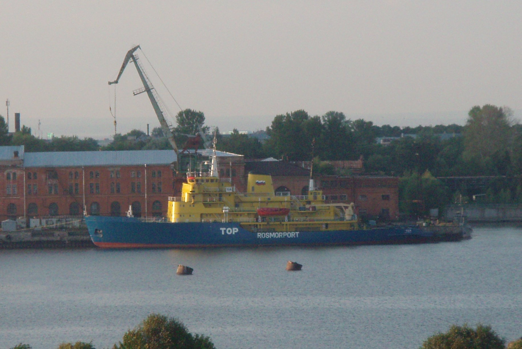 Ice breaker Tor (built 1964 at Wärtsilä Helsinki Shipyard in Finland) docked in Kronstadt, Russia. Still under original name, but spelled with chyrillic letters.